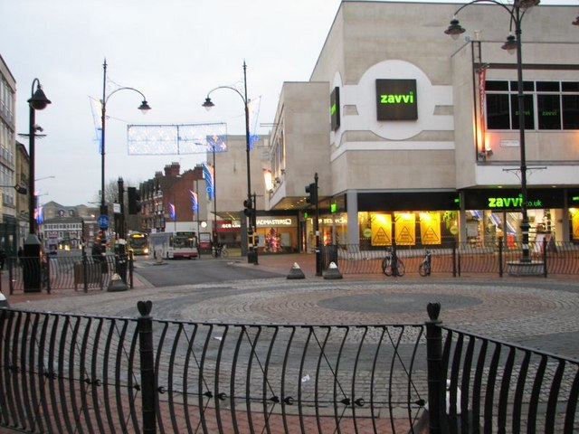 Looking down at the butts St Mary's Butts, never knew why it was called that until I left school and found out what butts were. The building you see facing you in the distance used to be the dolls hospital which was a toy shop where you could get your dolls and toys fixed. Zavvi to the right in the foreground has just gone into liquidation.